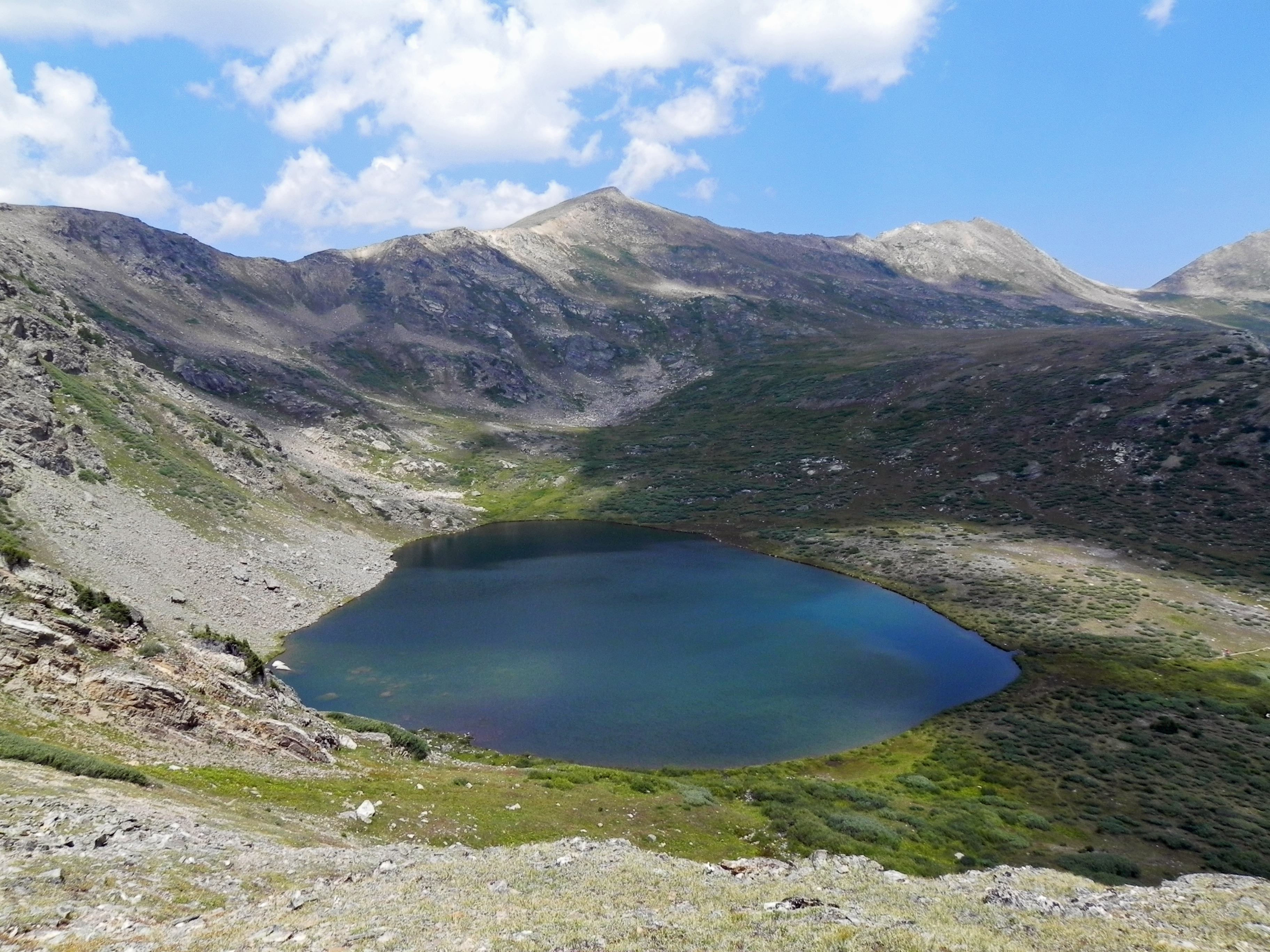 Linkins Lake and Geissler Mountain in the Sawatch Range and Hunter-Fryingpan Wilderness of White River National Forest